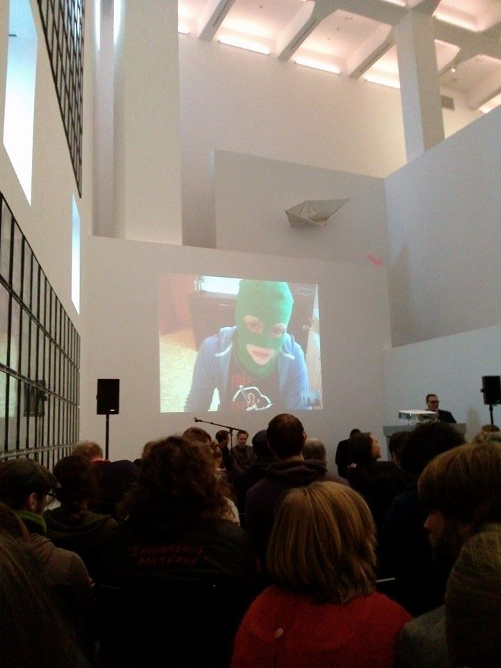 Projection of Karen Eliot via Skype, panel discussion at the "Next Level" game art exhibition at the Dortmunder U in 2013